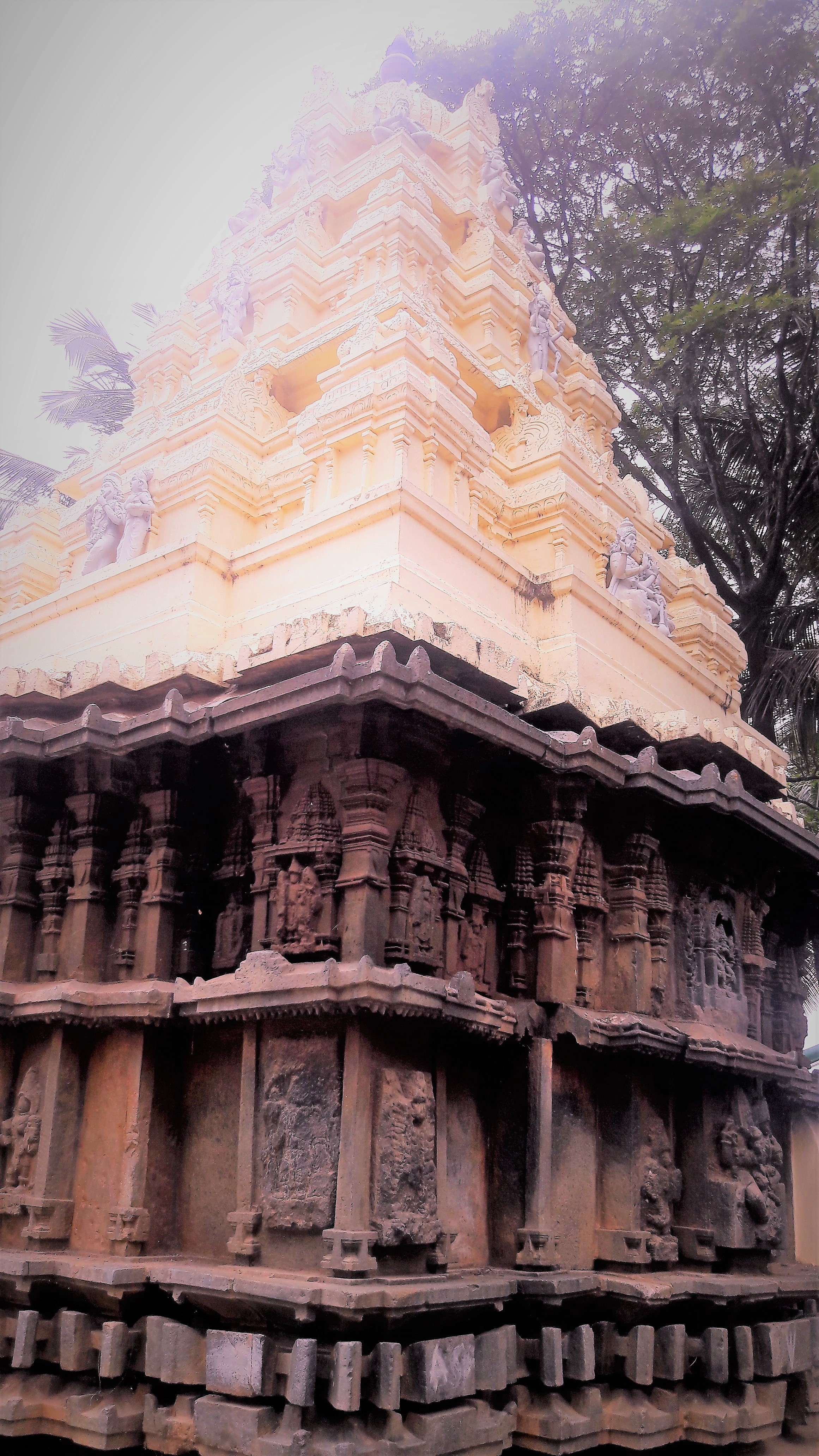 Kothanda Ramar temple, Hiremagalur